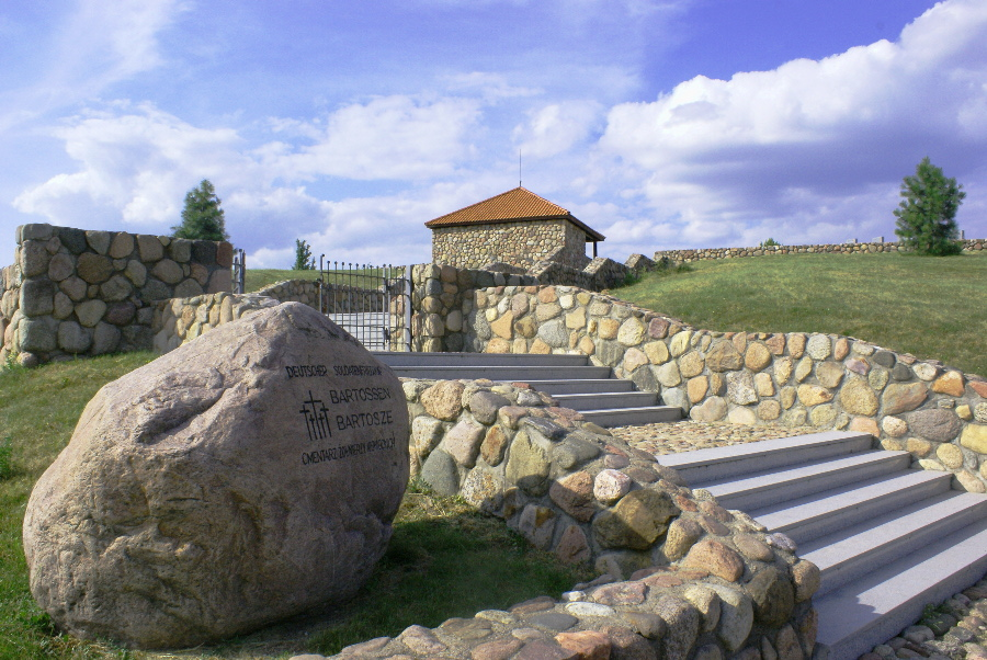 German military cemetery Bartosze